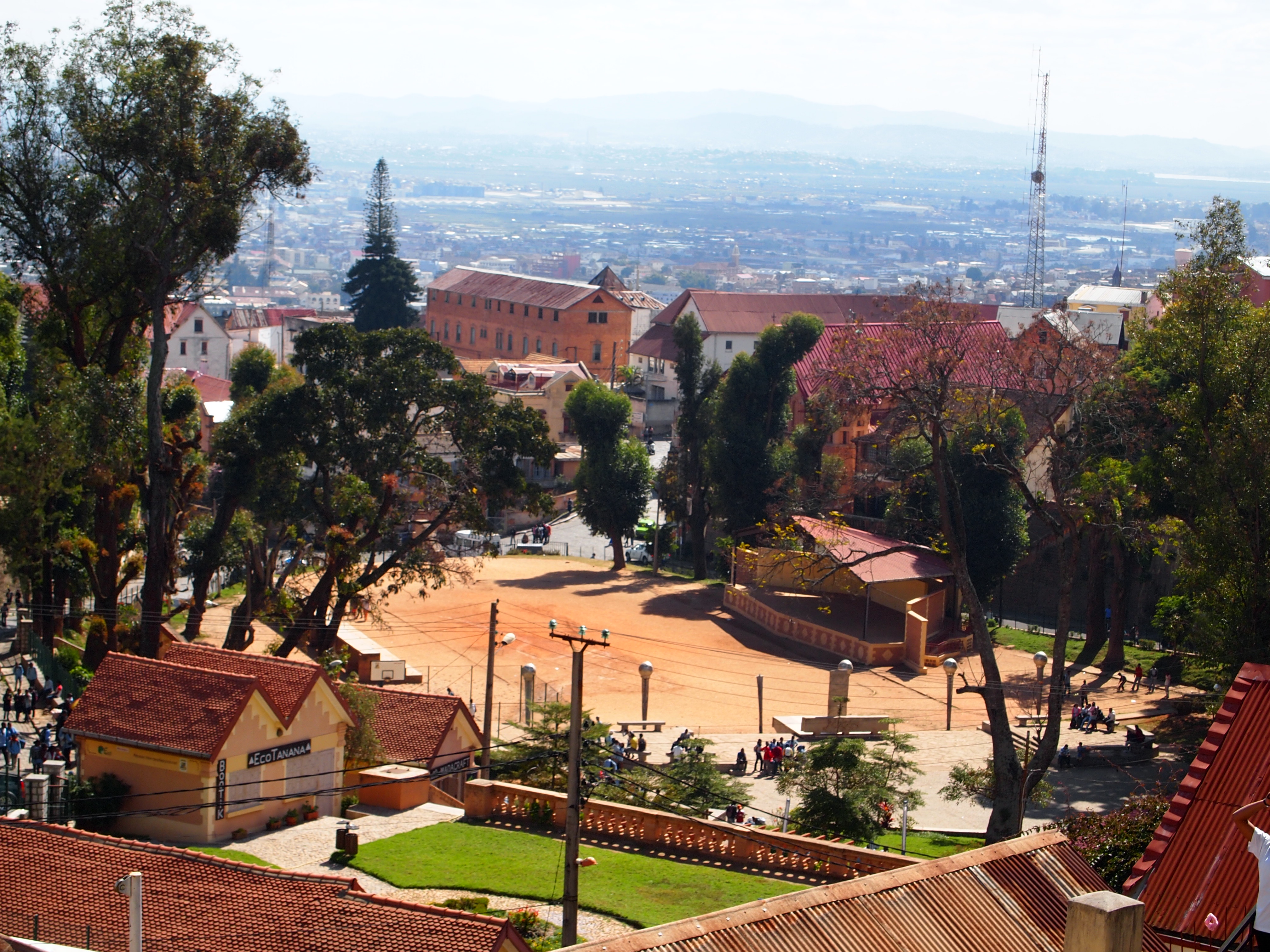 Andohalo in Antananarivo, Madagascar